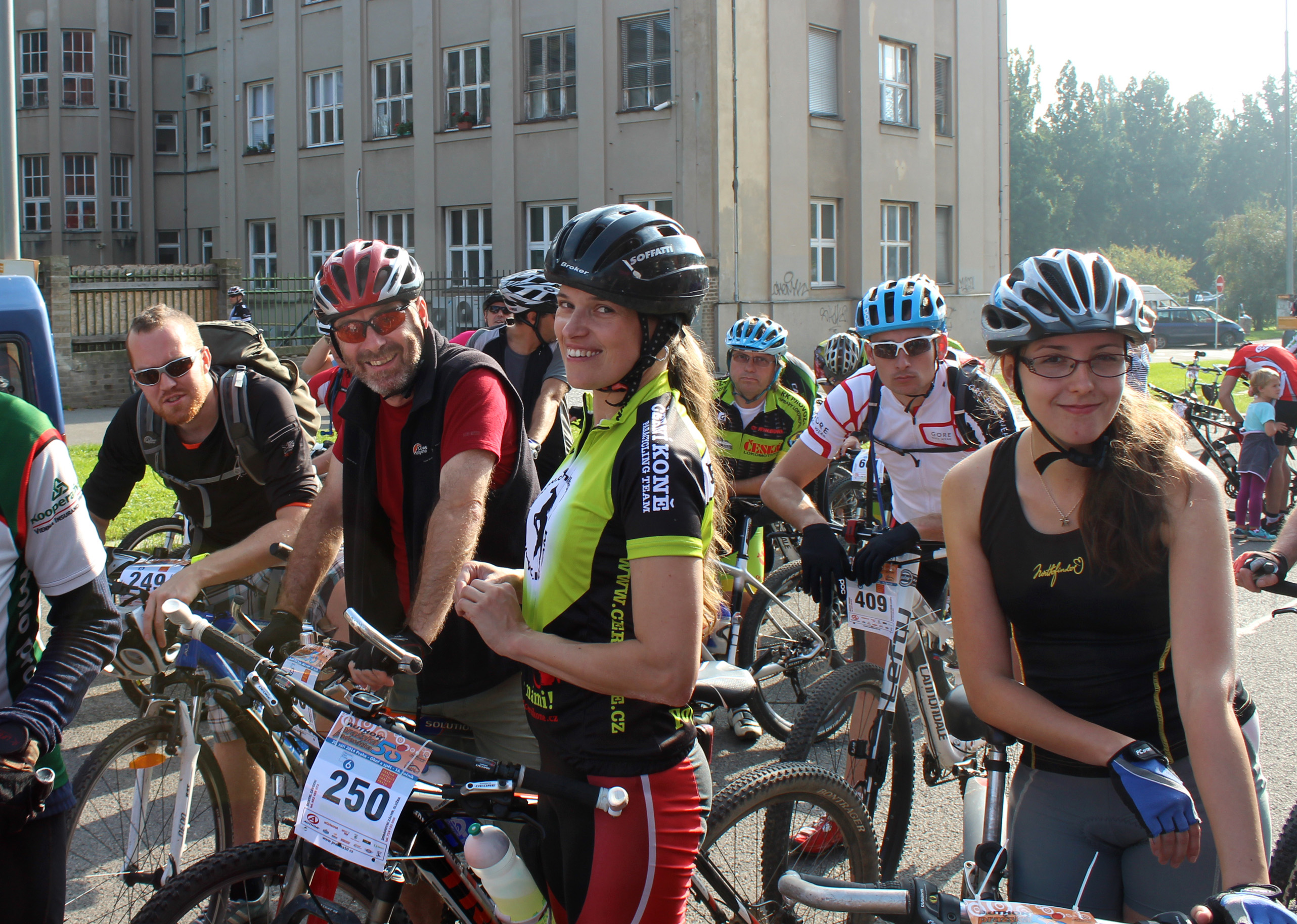 Czech Wikipedia Cyclo Team before start of "Pražská padesátka" event, Prague, Czech Republic.